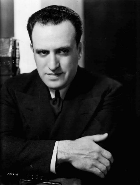 Photo of Al Goodman, who was a songwriter, conductor, arranger and pianist.